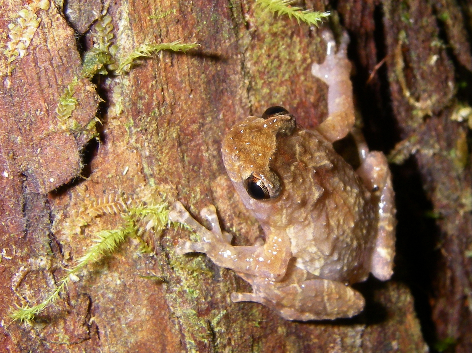 Anodonthyla boulengerii (Microhylidae); Ranomafana National Park, Madagascar